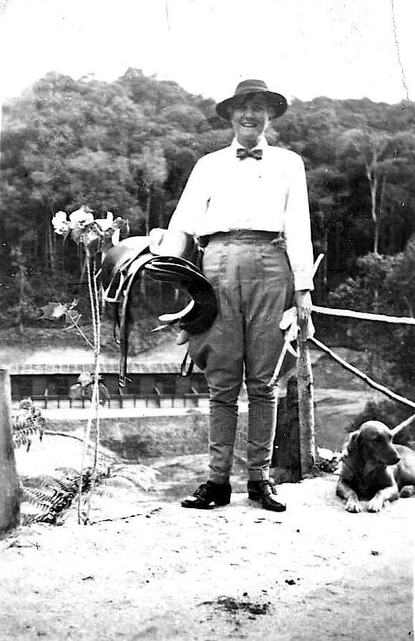 Miss Anne Griffith-Jones in riding kit at the Cameron Highlands, Pahang, West Malaysia (c. 1935).